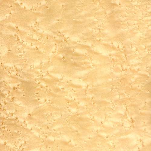 I took this picture myself of a table we have, made of Bird's eye maple.